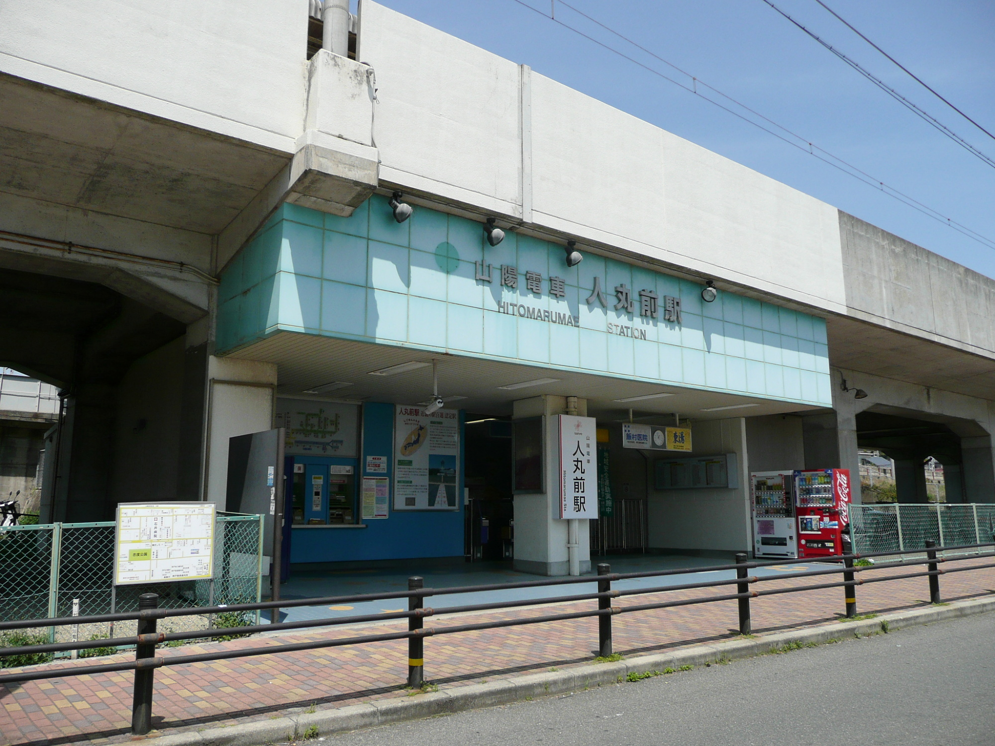 Sanyo Electric Railway,Hitomarumae Station. / 山陽電気鉄道人丸前駅入口